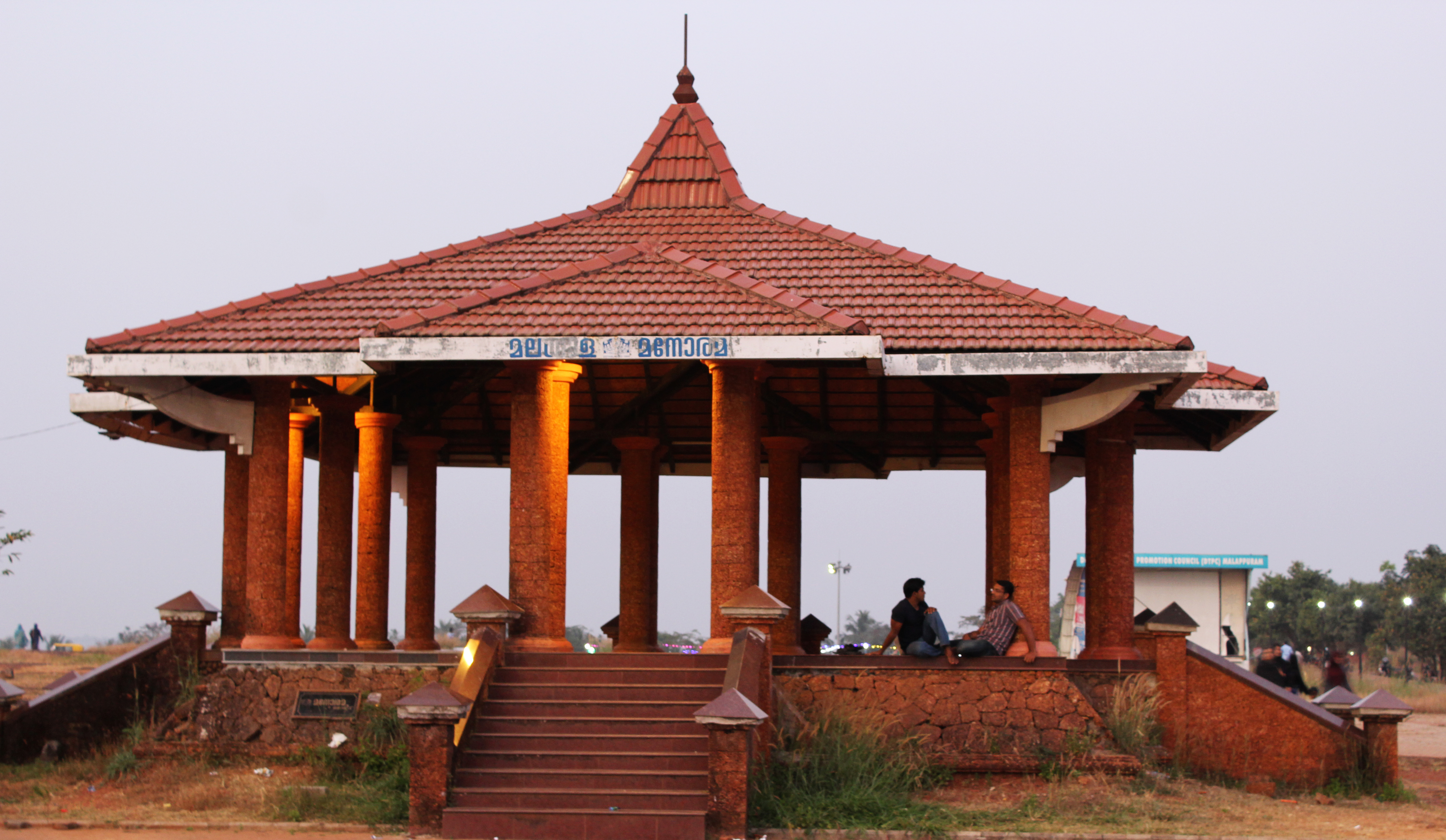 Kottakkunnu. A Tourist Place in Kerala, Malappuram District